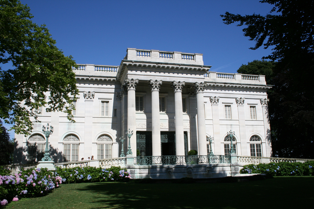 The Marble House 010